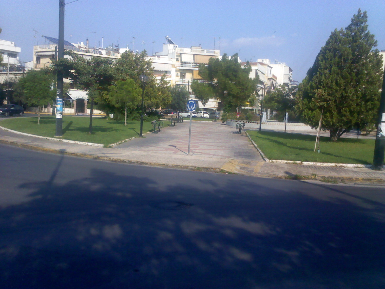 Square Eleftheriou Benizelou Renti